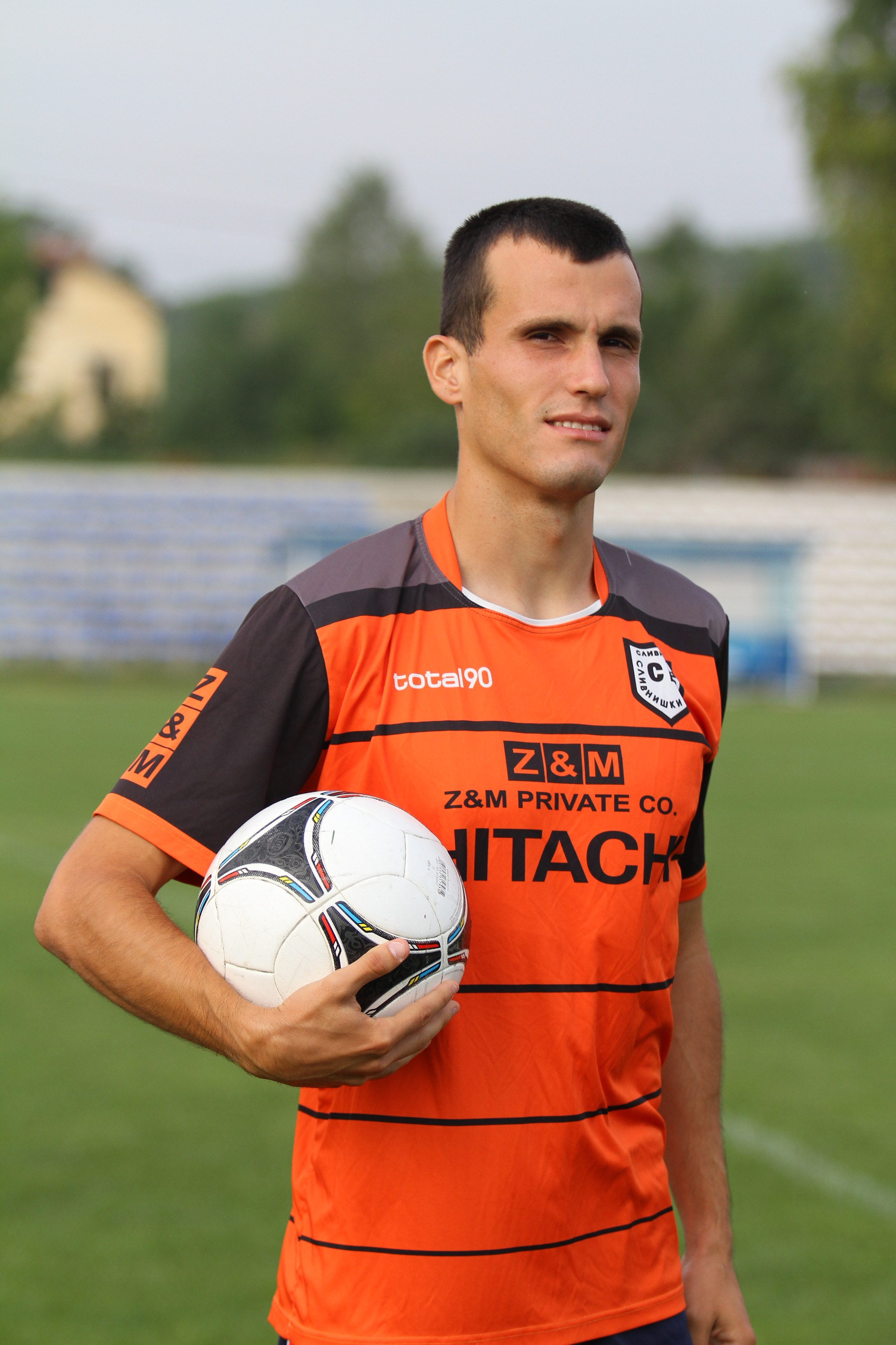 Rumen Kerekov - bulgarian soccer player